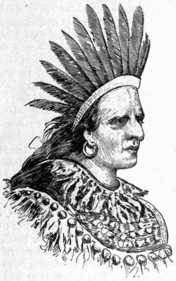 Portrait of Oneida chief Swatane (a.k.a. Shikellimy)